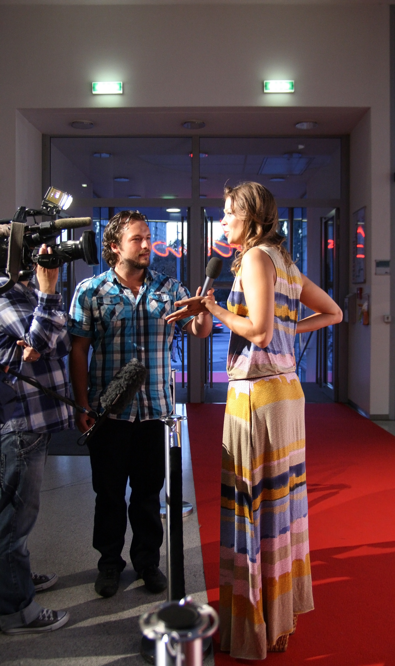 Jessica Schwarz at the Austrian premiere of Heiter bis wolkig at Urania cinema in Vienna, Austria.